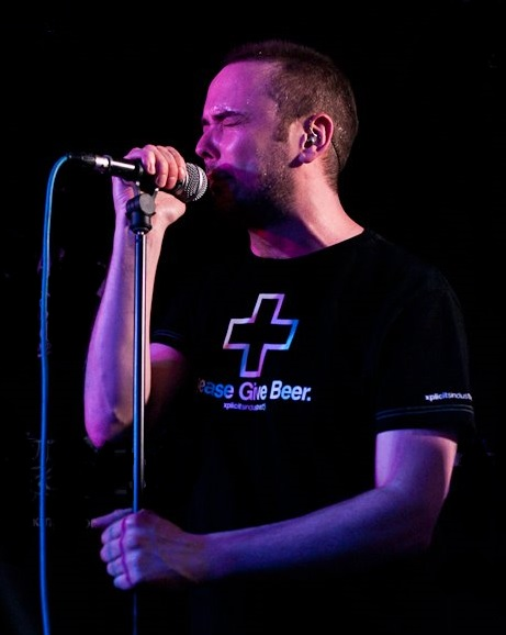 Stevie Mann - Lead Singer or Rock Band Nine Lies Live at the Dublin Castle Camden London